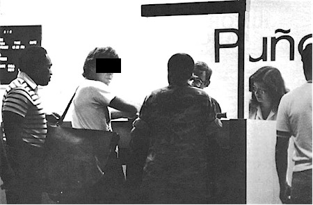 A ticket counter was set up at Miami International Airport next to the Air Haiti ticket counter to add to the realism of the scam. All but one of the sting fugitives, Marshall Wolfman, were arrested in a limousine after being picked up at their residence for a ride to the airport. Wolfman was arrested when he arrived at the ticket counter to board his "flight".